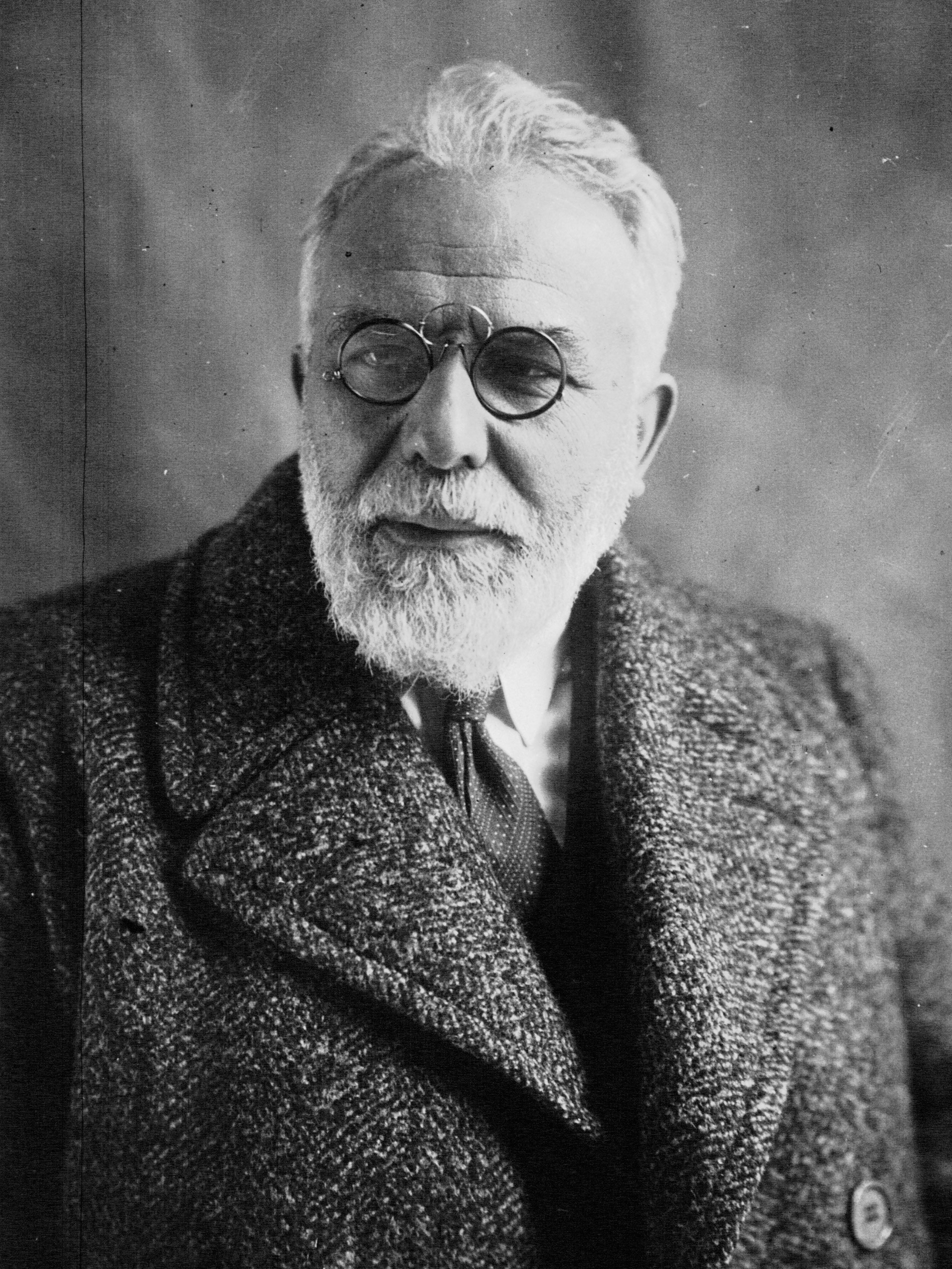 Portrait of the Occitan politician Eugèni Romagós